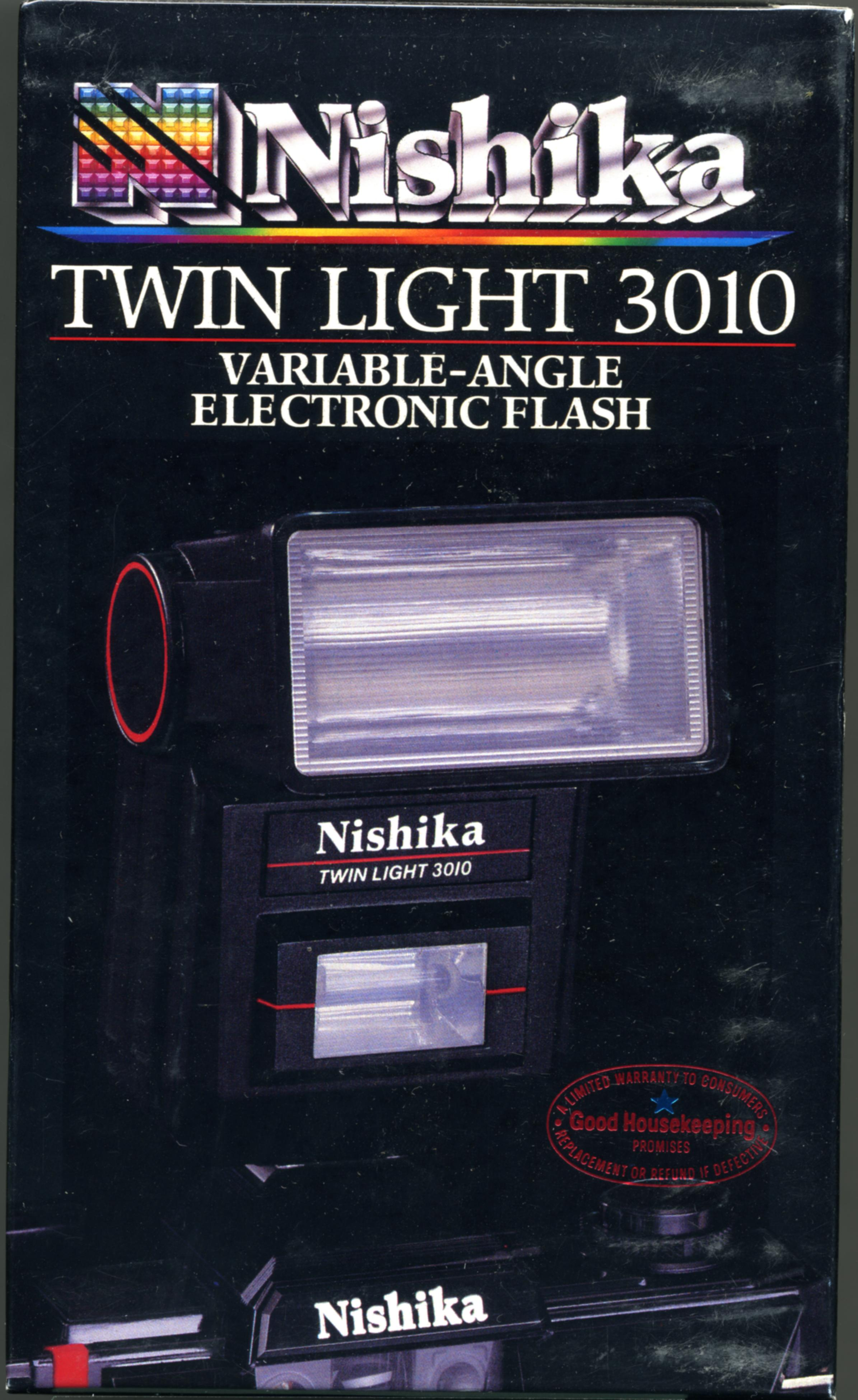 Companion flash for Nishika N8000, the first Nimslo clone.